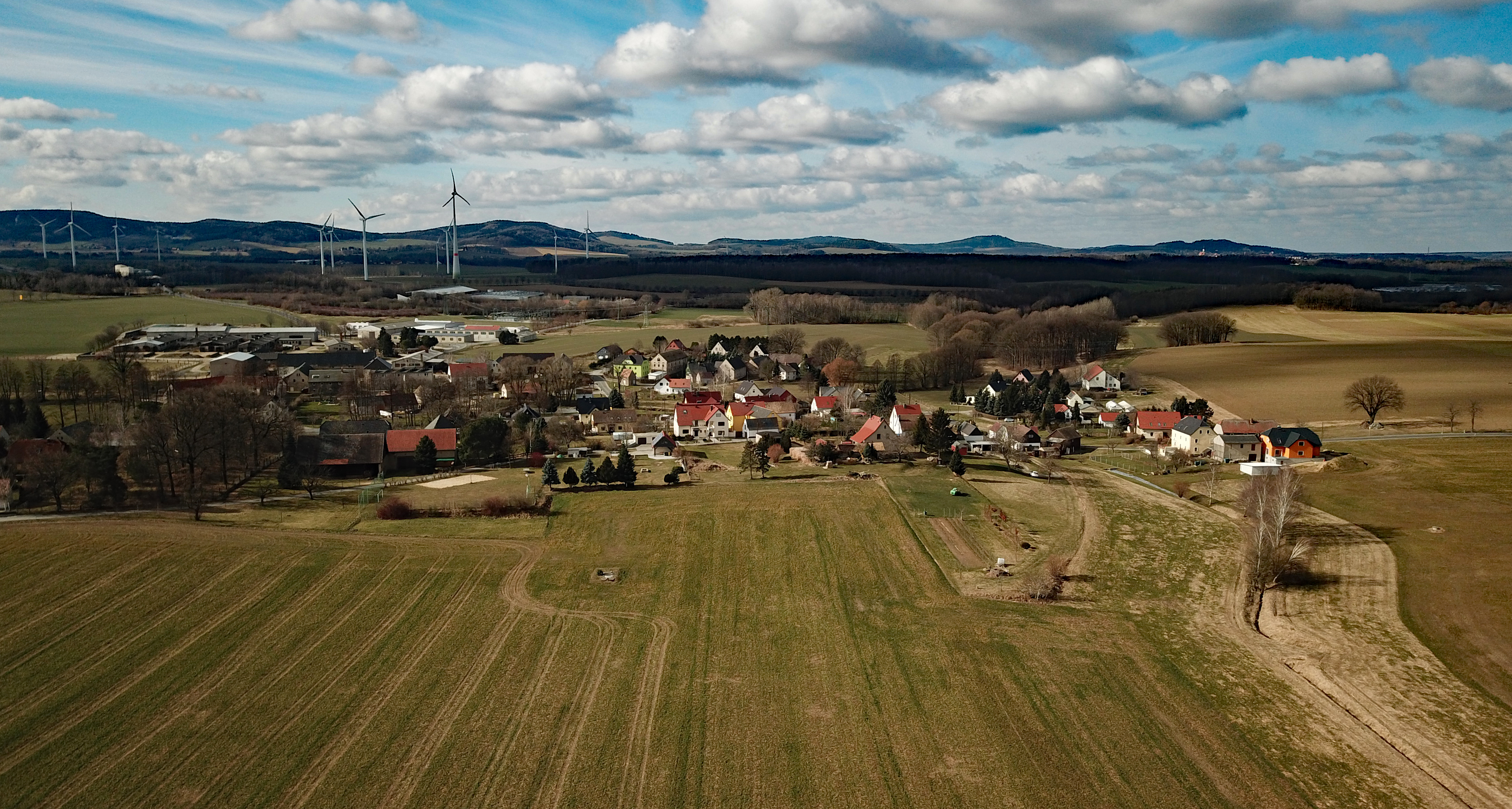 Miltitz (Nebelschütz, Saxony, Germany) Hornjoserbsce: Powětrowy wobraz Miłoćic.